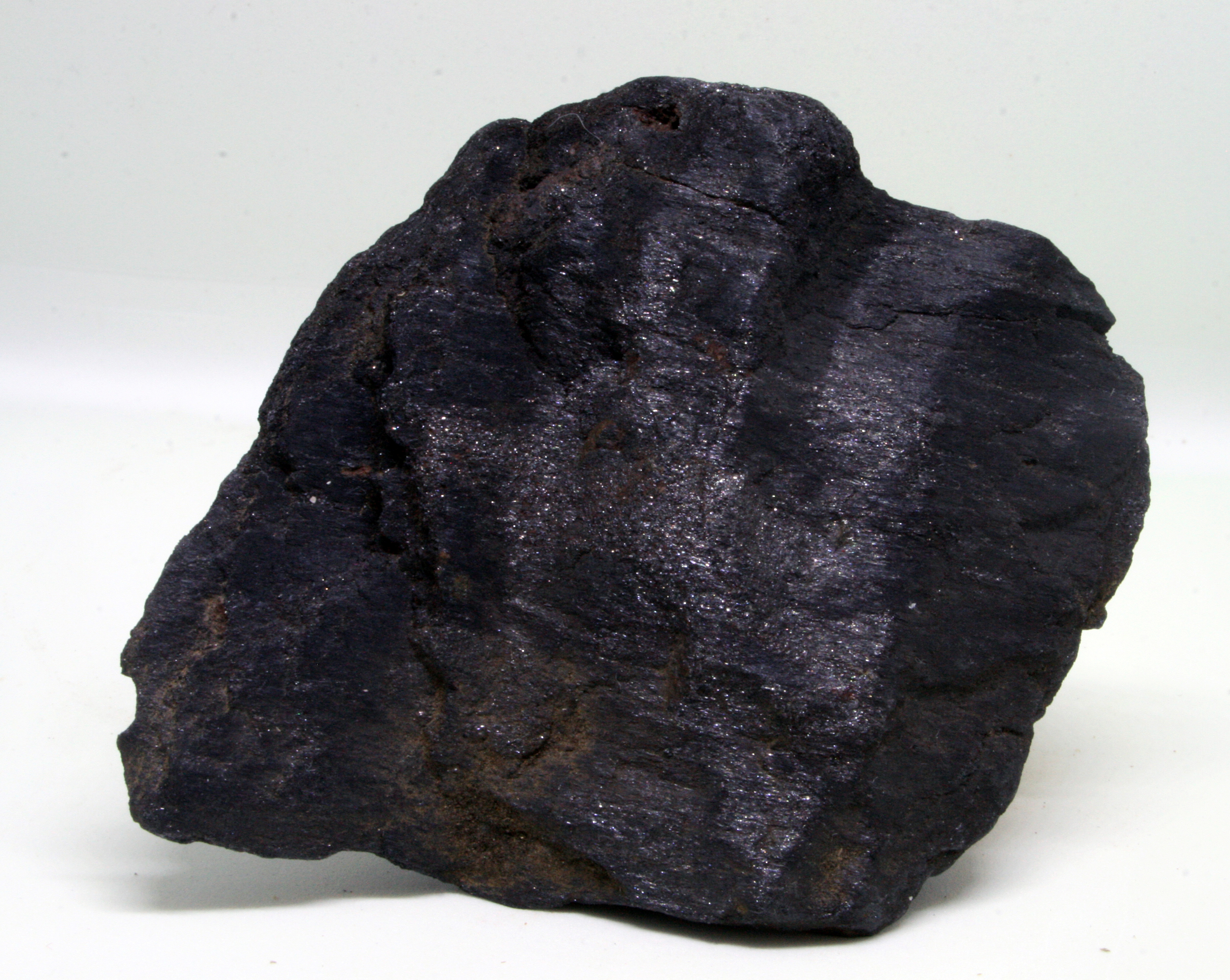 Fibrous vonsenite. Monchi Mine, Burguillos del Cerro (Badajoz) Spain